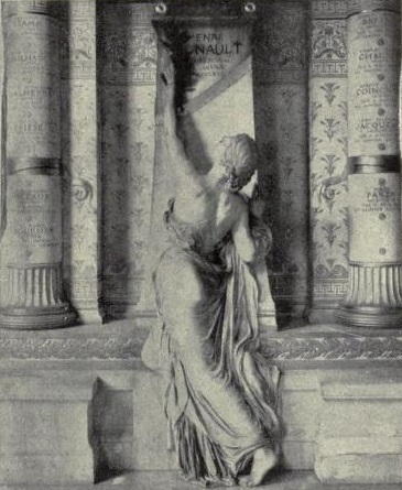 Sculpture of Youth (Monument to Henri Regnault) by Henri Chapu.